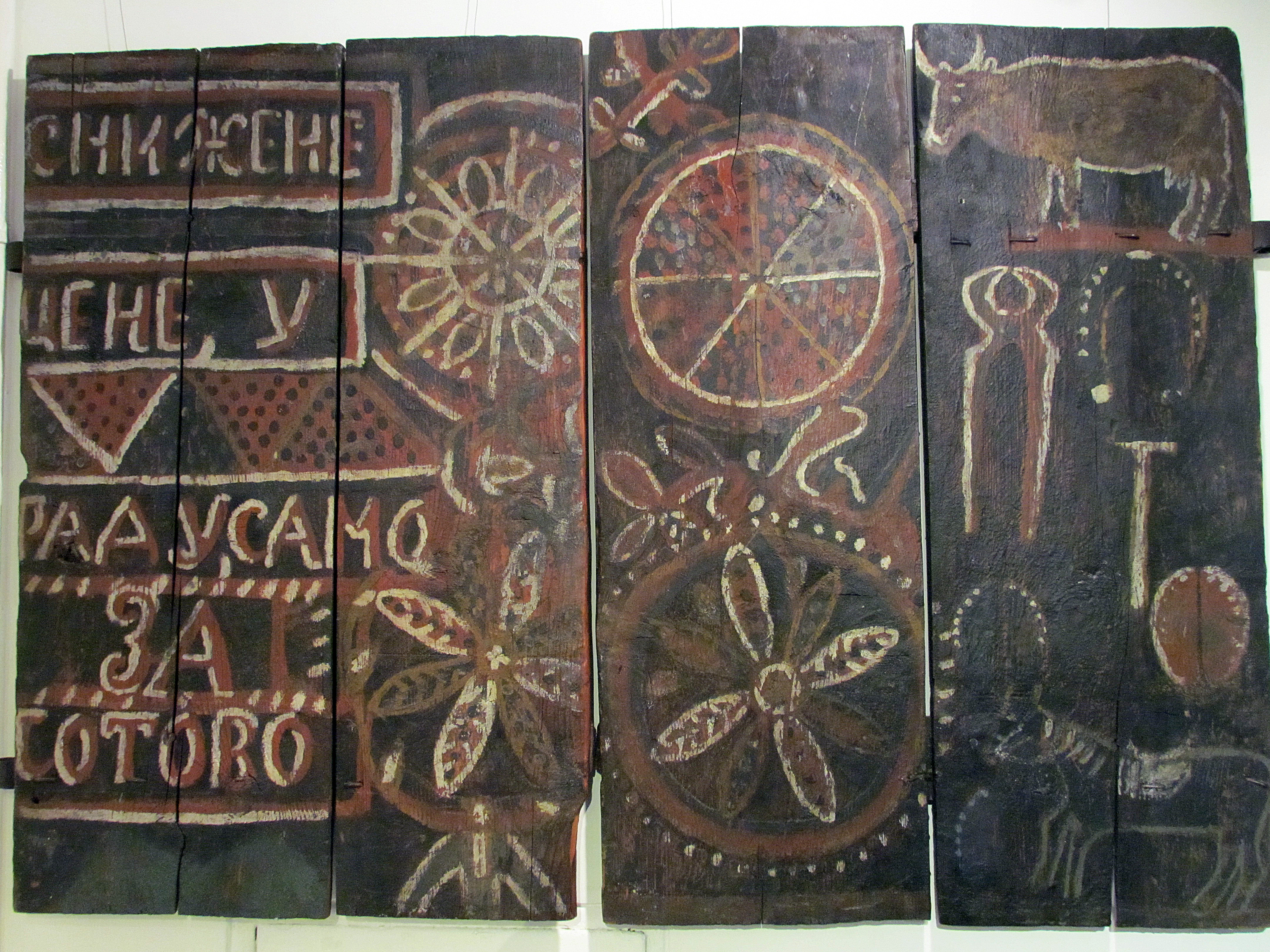 Farriers signboard, first half of 20 century, Serbia